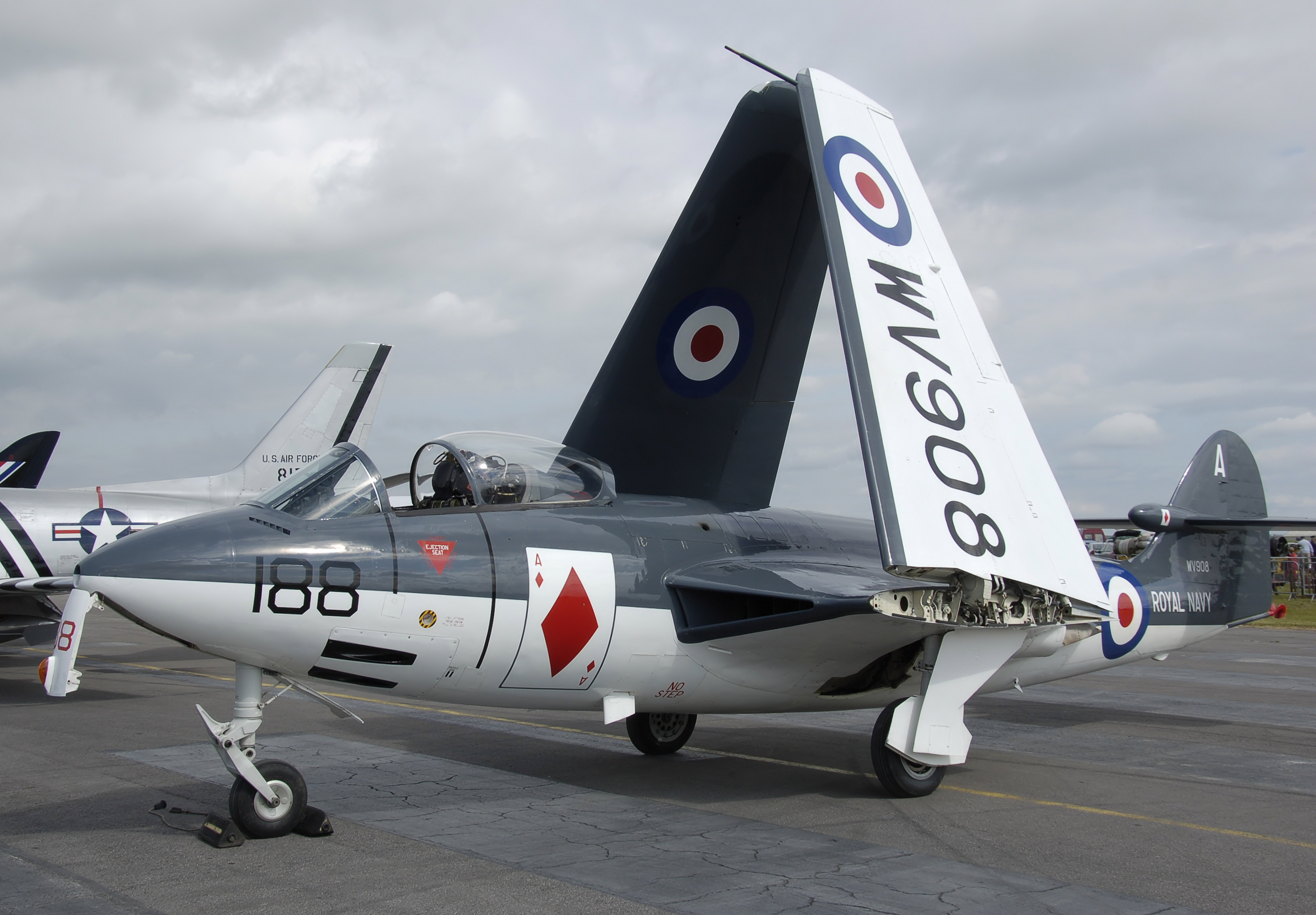 “Royal Navy Historic Flight” Hawker Sea Hawk FGA.6 (registration WV908) on static display at Kemble Air Day 2008, Kemble Airport, Gloucestershire, England. WV908 was built at Baginton (Coventry) by Armstrong Whitworth. First flight 1954, retired 1962, restoration started 1976.